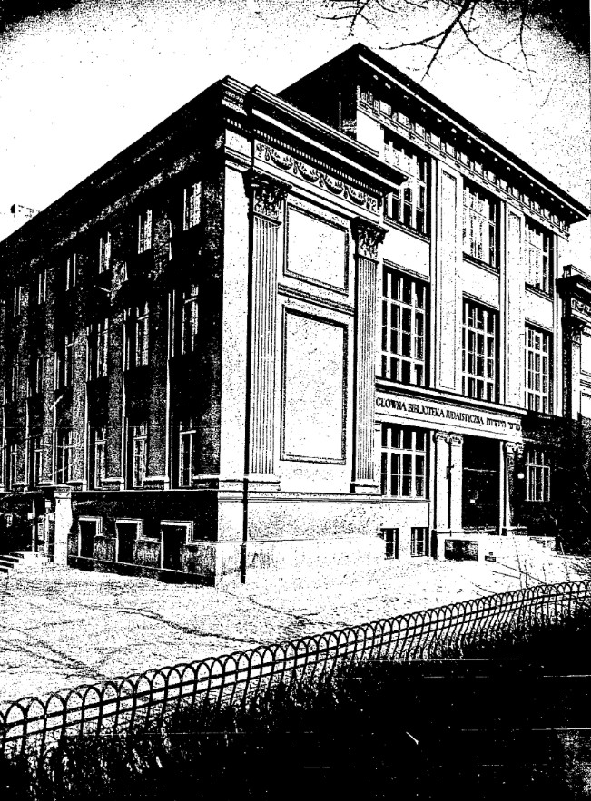 Building of former Main Judaistic Library in Warsaw - now Jewish Historical Institute